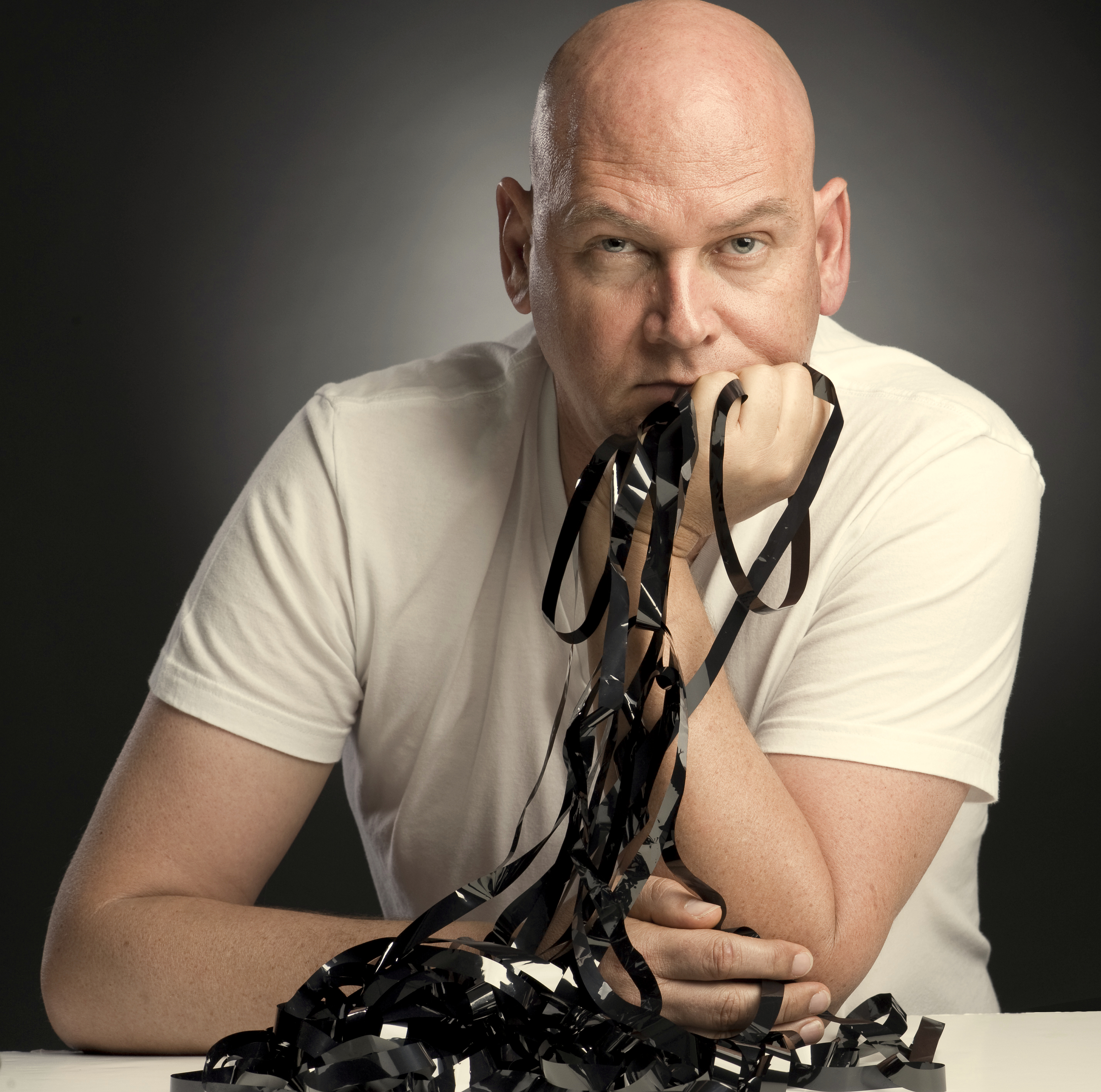 Nir Toib (1964-2013) - Israeli Filmmaker, Documentaries Director and Producer